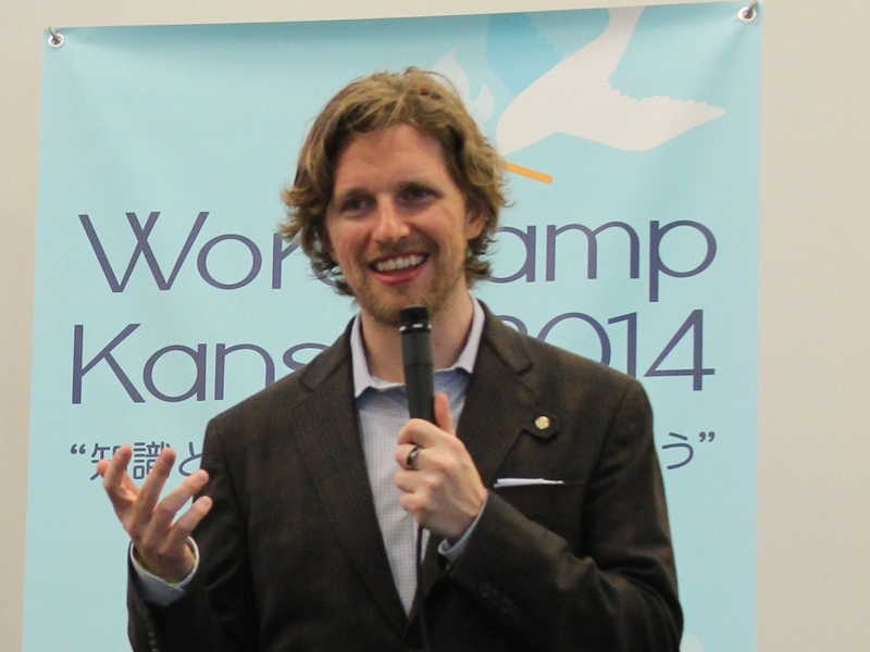 Matt Mullenweg